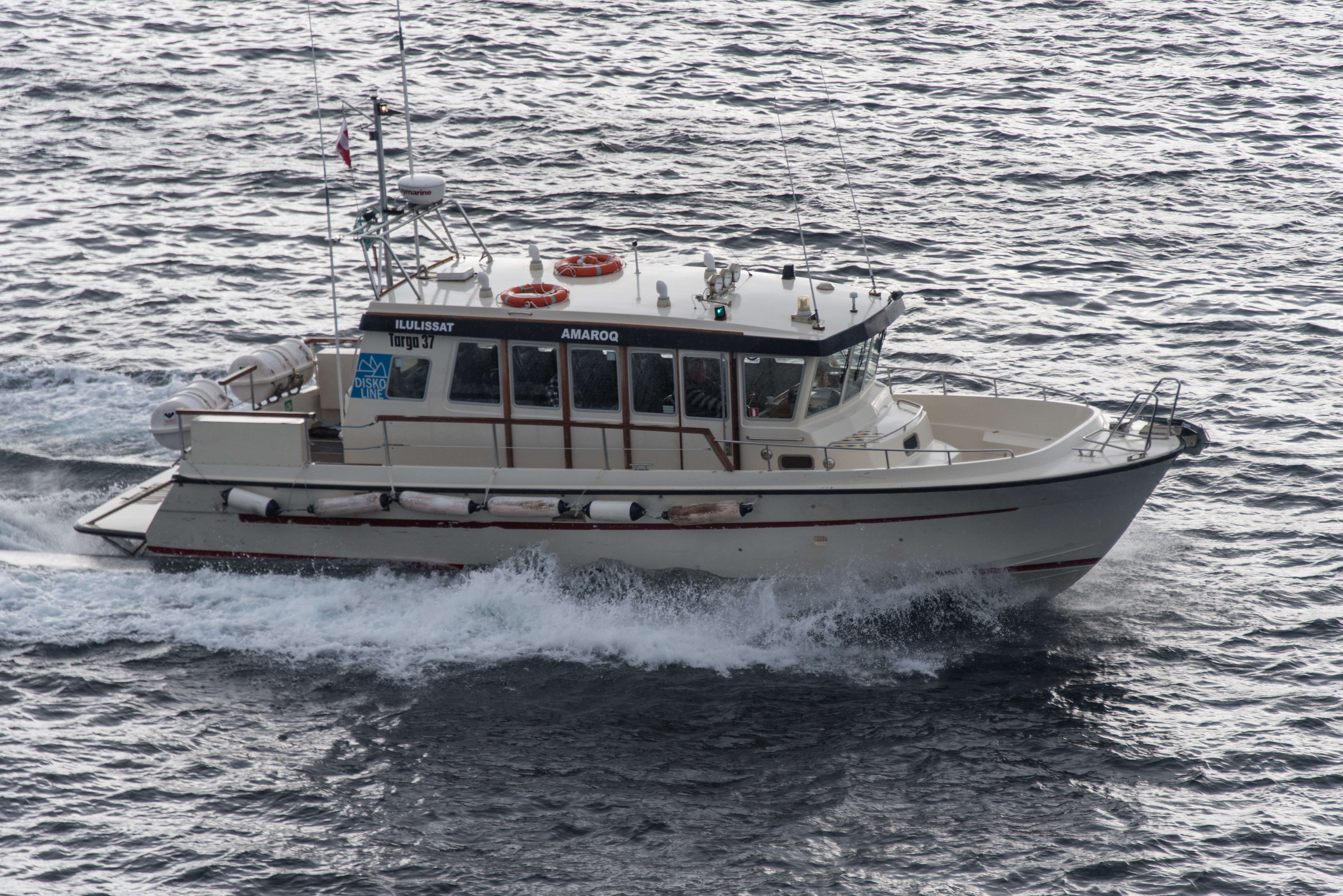 Diskoline passenger boat, AMAROQ, heading back to Ilulissat from Ilimanaq, Greenland on August 30, 2017.